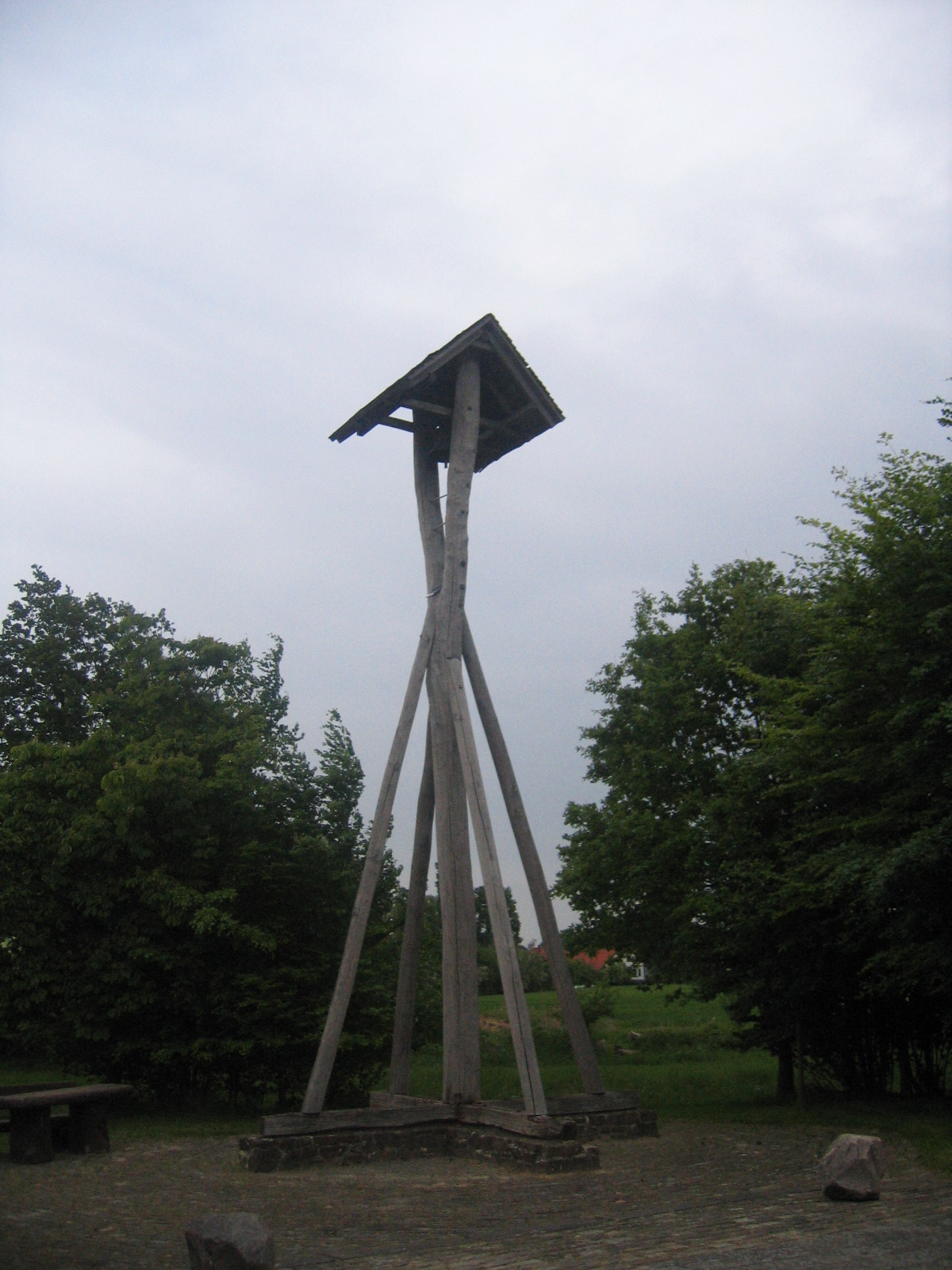 Bell tower in Preußisch Oldendorf, District of Minden-Lübbecke, North Rhine-Westphalia, Germany.